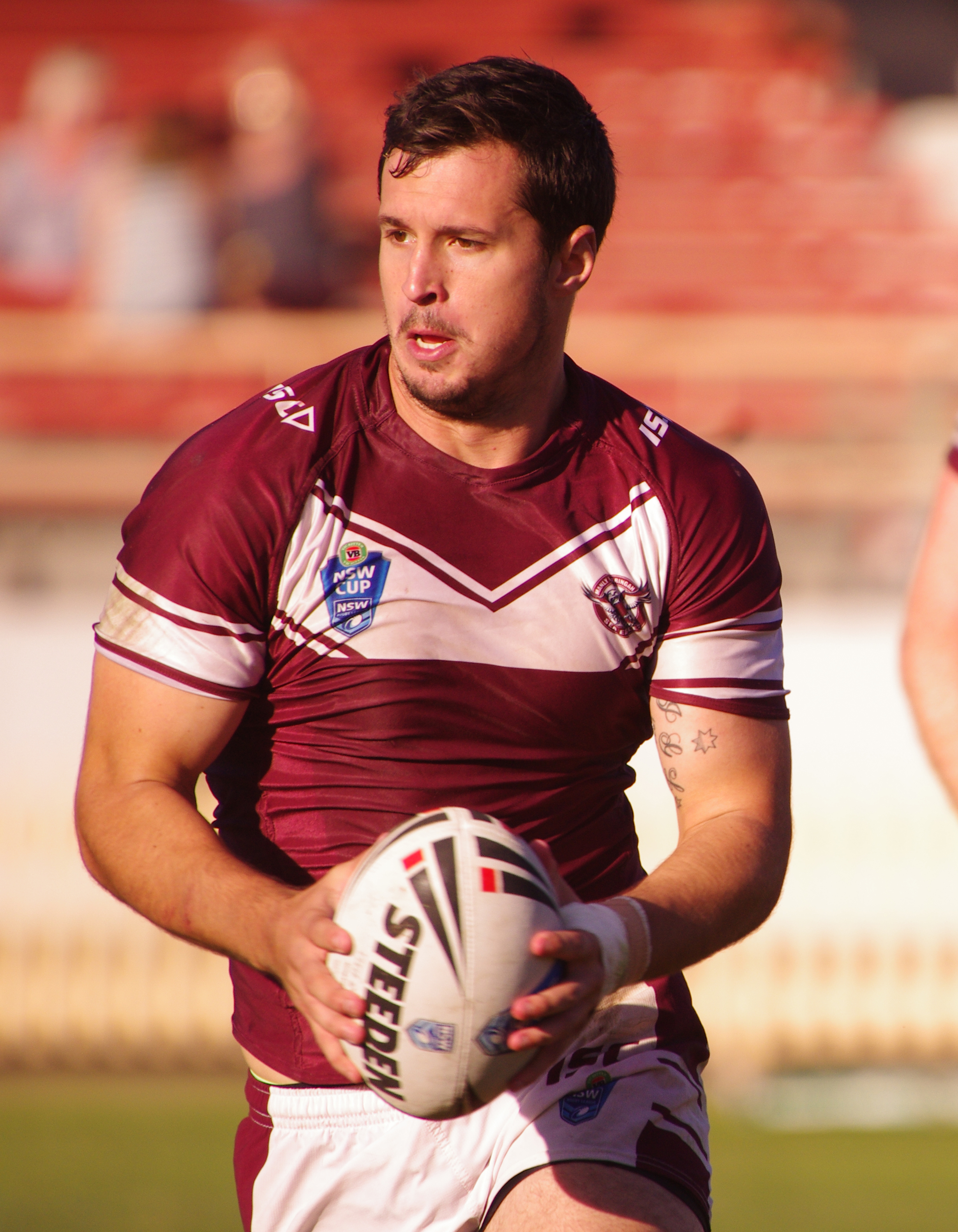 Jack Littlejohn